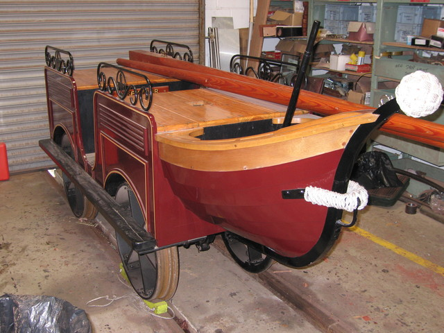 Replica of Spooner's boat, Boston Lodge works, Ffestiniog Railway